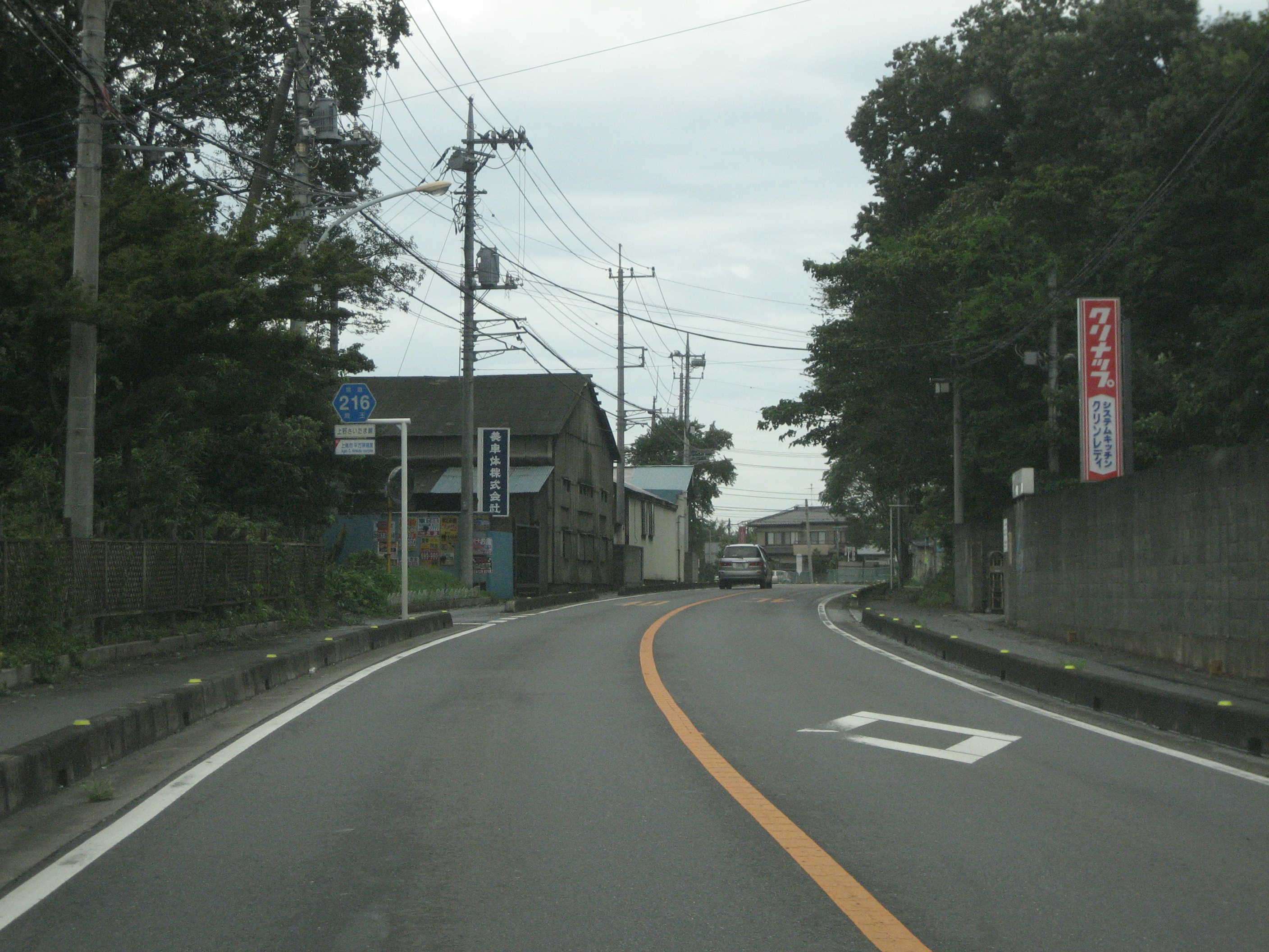 The Saitama Prefectural Road Route 216 in Ageo City